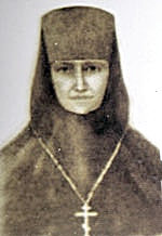 Angelina (1809—1880)